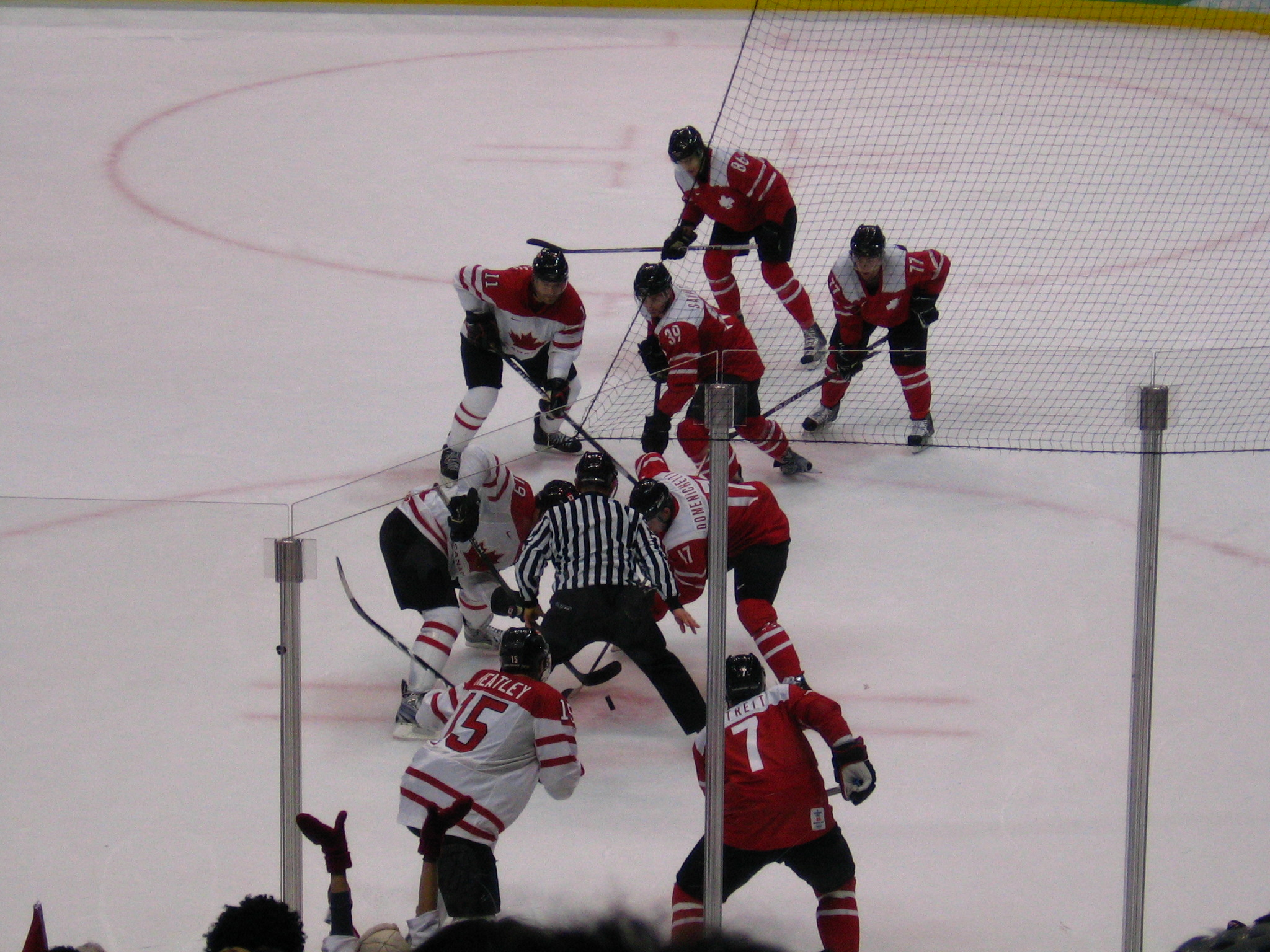 Canada vs Switzerland at 2010 Winter Olympics.